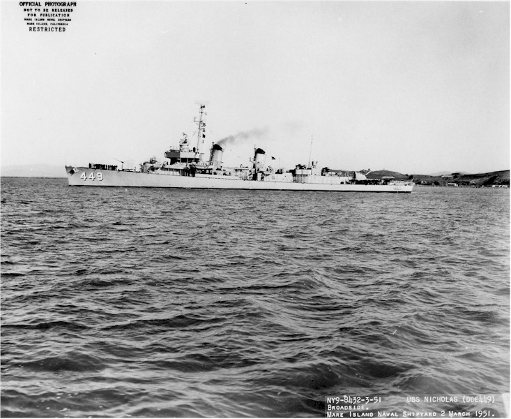 The U.S. Navy destroyer USS Nicholas (DD-449) off the Mare Island Naval Shipyard, California (USA), on 2 March 1951.